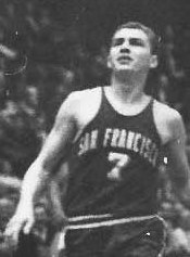 Former American basketball player, K. C. Jones during a game with the Boston Celtics.